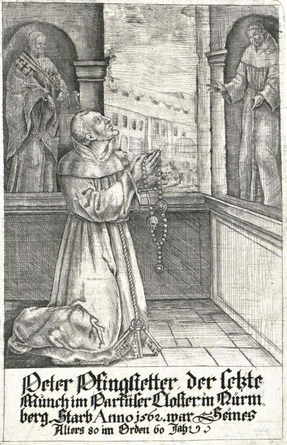 Peter Pfingstetter (1482 - 1562), der letzte Franziskaner von Nürnberg